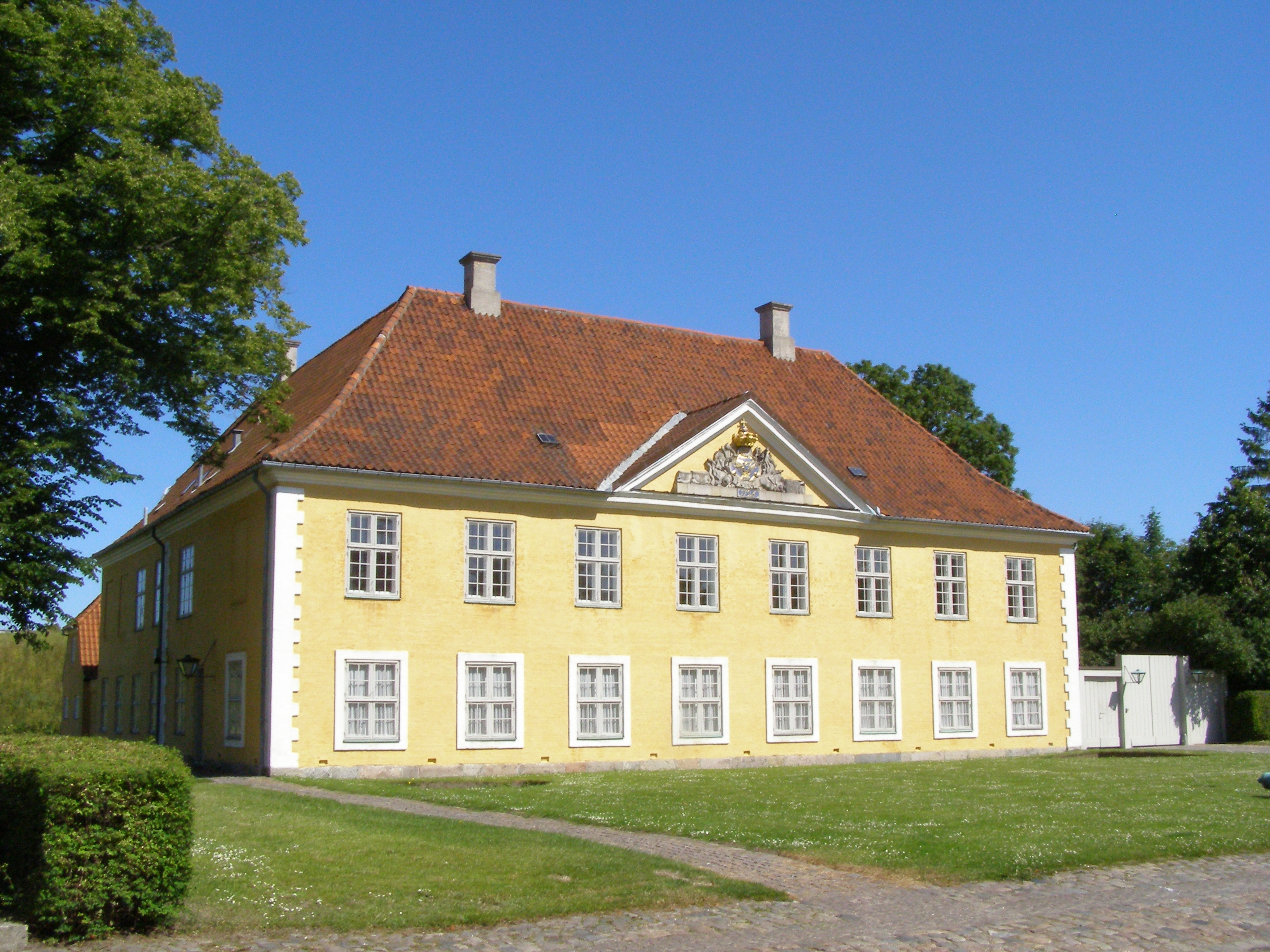 Copenhagen - Kastellet